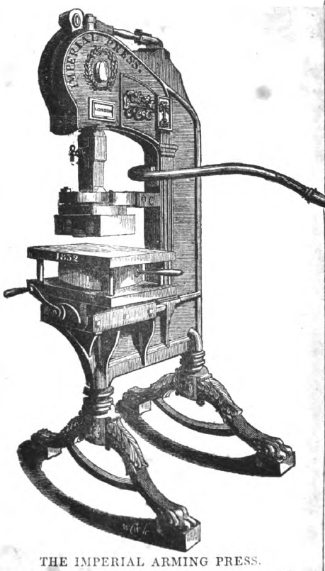 A gilding press from 1832 The Imperial Arming Press - Woodcut in Bibliopegia - or, The art of bookbinding in all its branches by John Andrews Arnett, 1835.